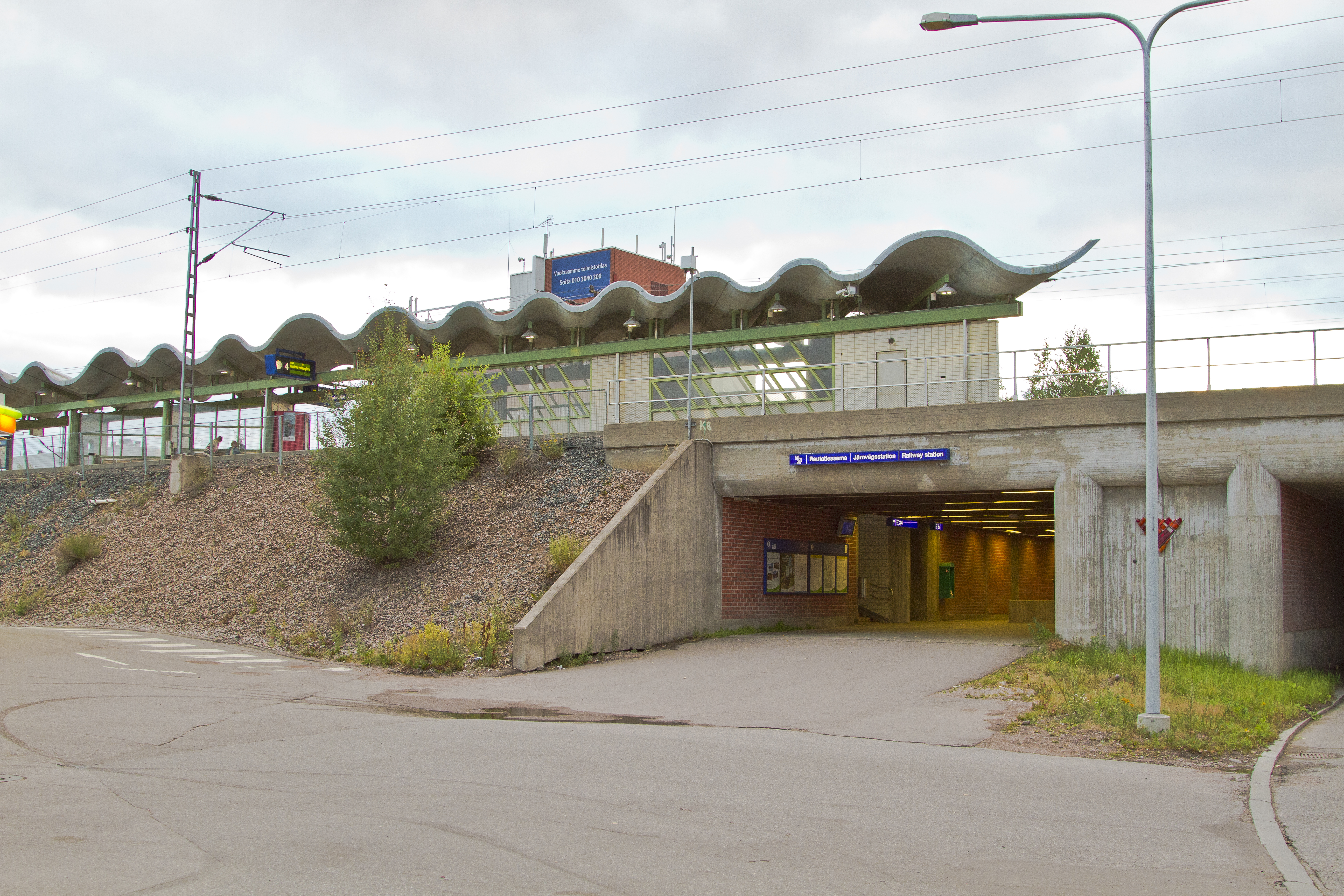 Northside of Pukinmäki railway station.